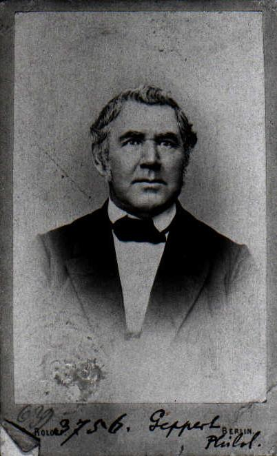 Karl Eduard Geppert